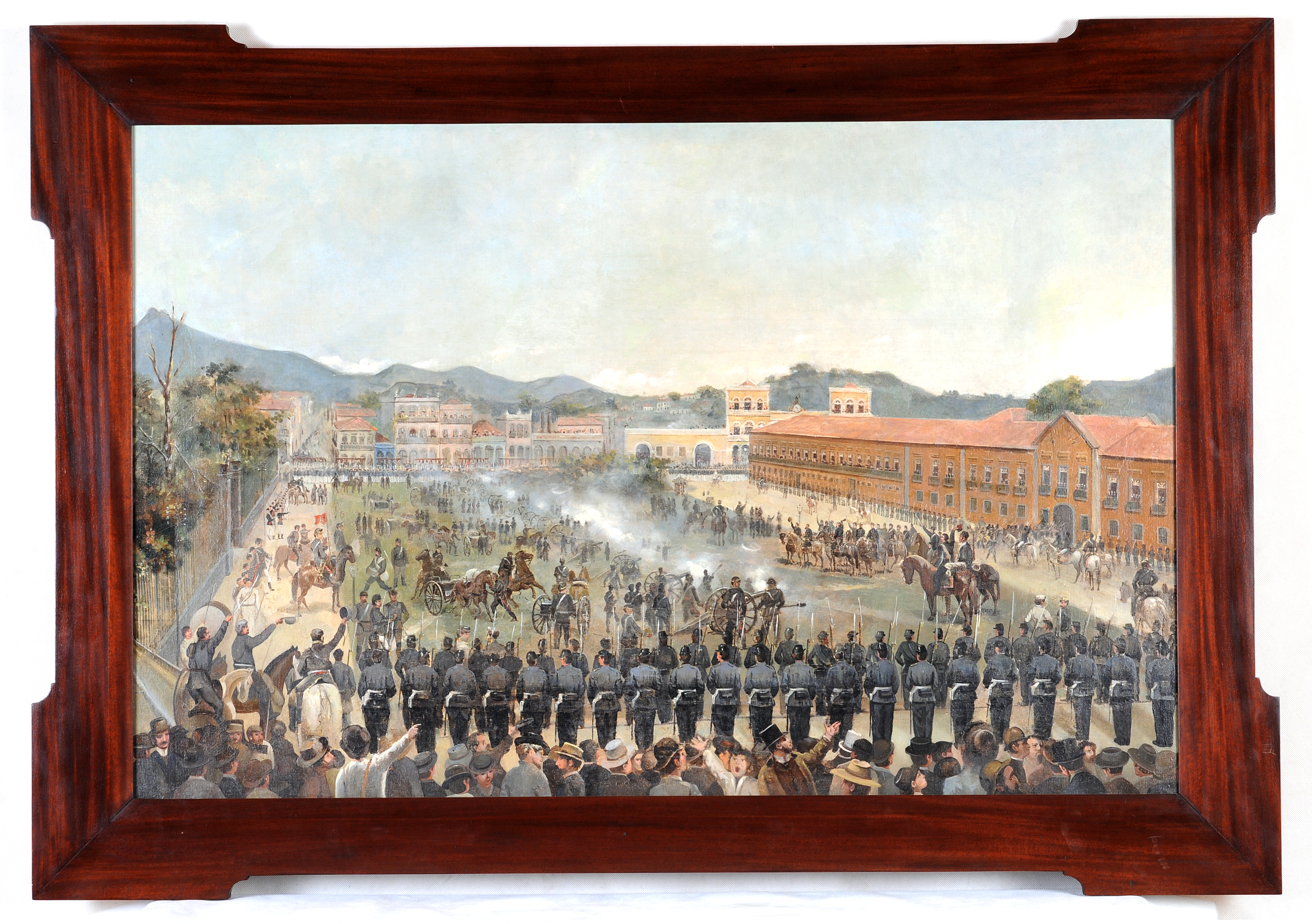 The Proclamation of the Republic, by Oscar Pereira da Silva, depicts the morning of November 15th, 1889, in Rio de Janeiro, when Brazil's political regime changed from monarchy to republic.